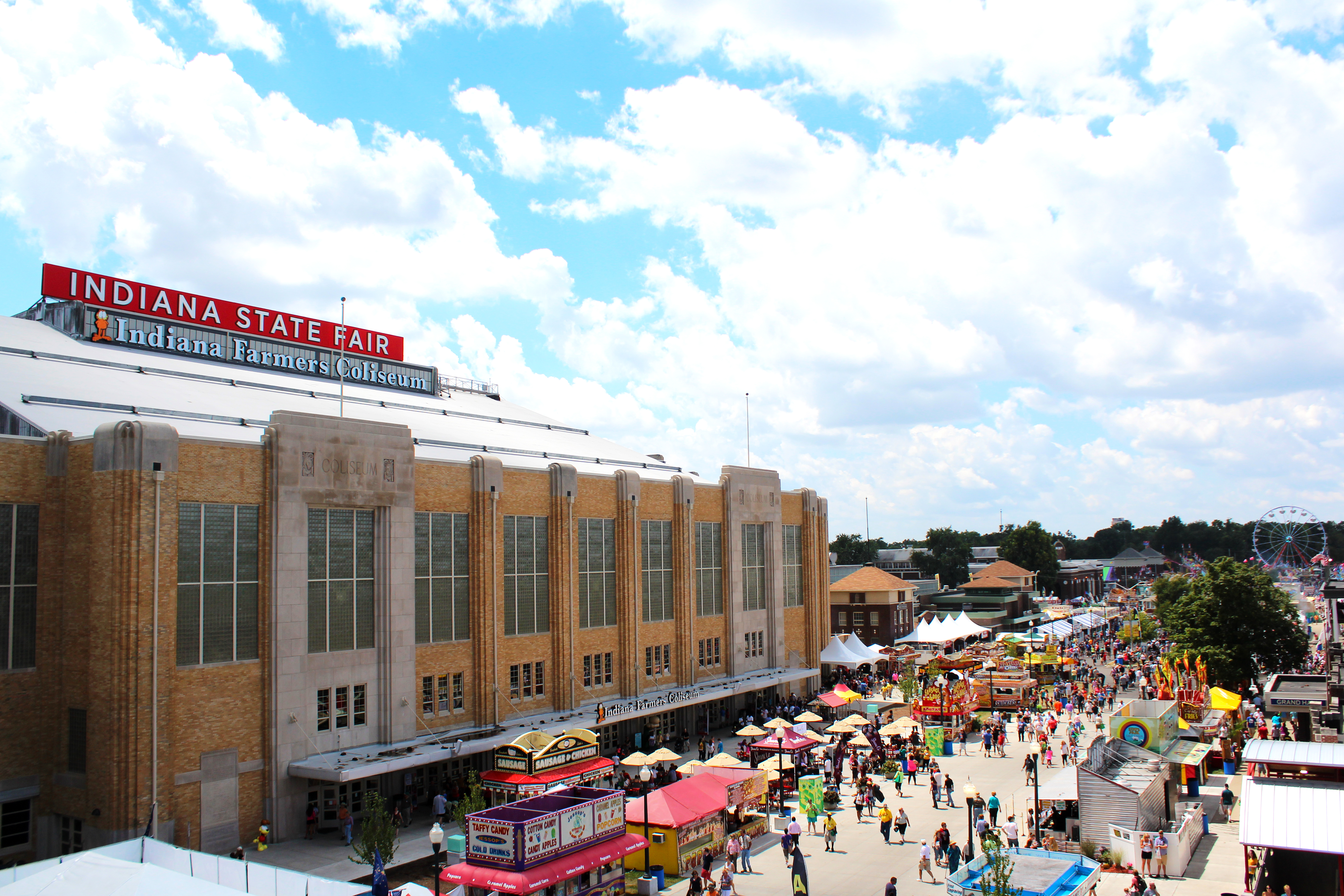 Coliseum Exterior 2015